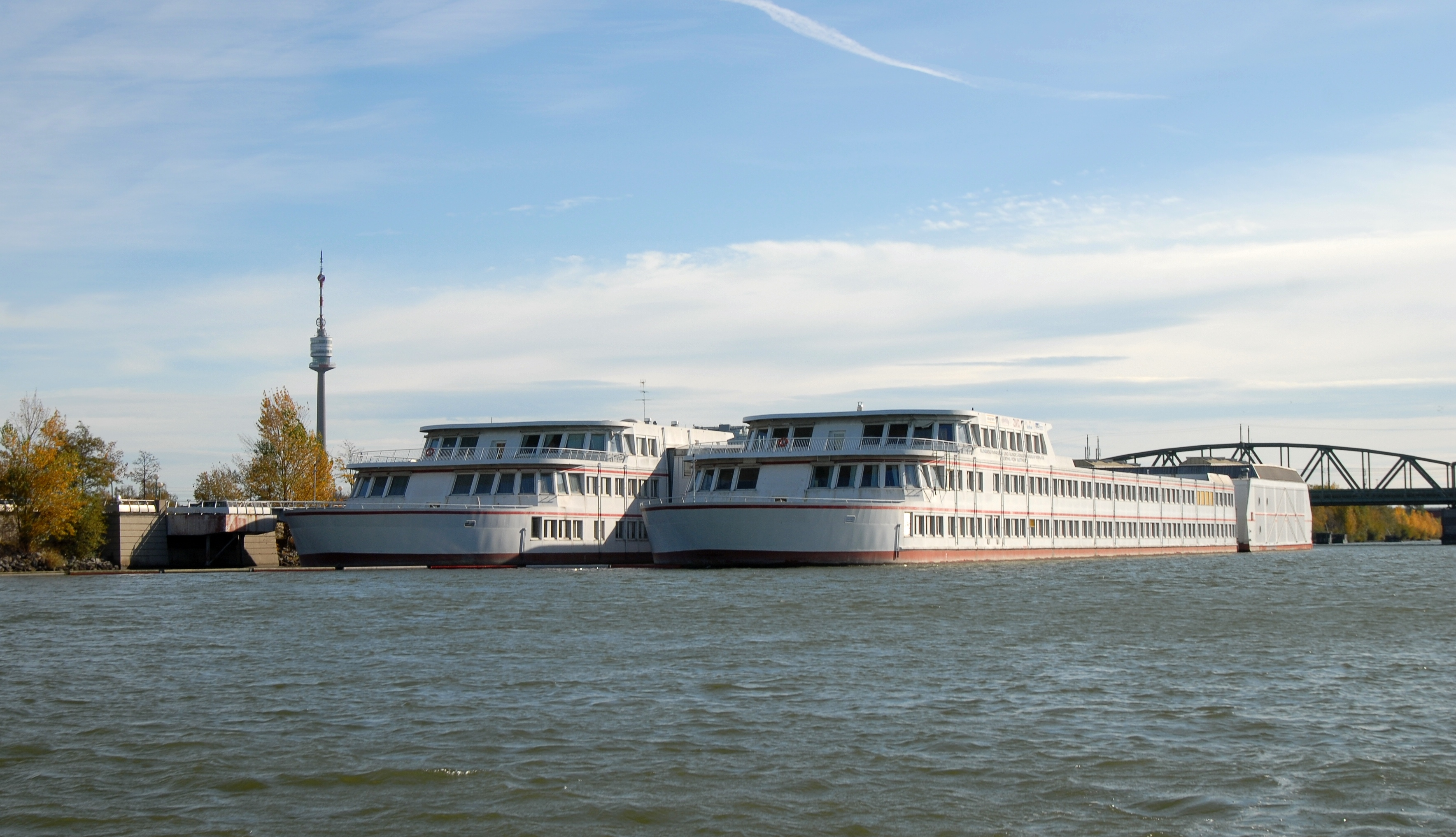 School ship: Bertha-von-Suttner-Gymnasium, Donauinsel, Wien - in the background to the left the Donauturm